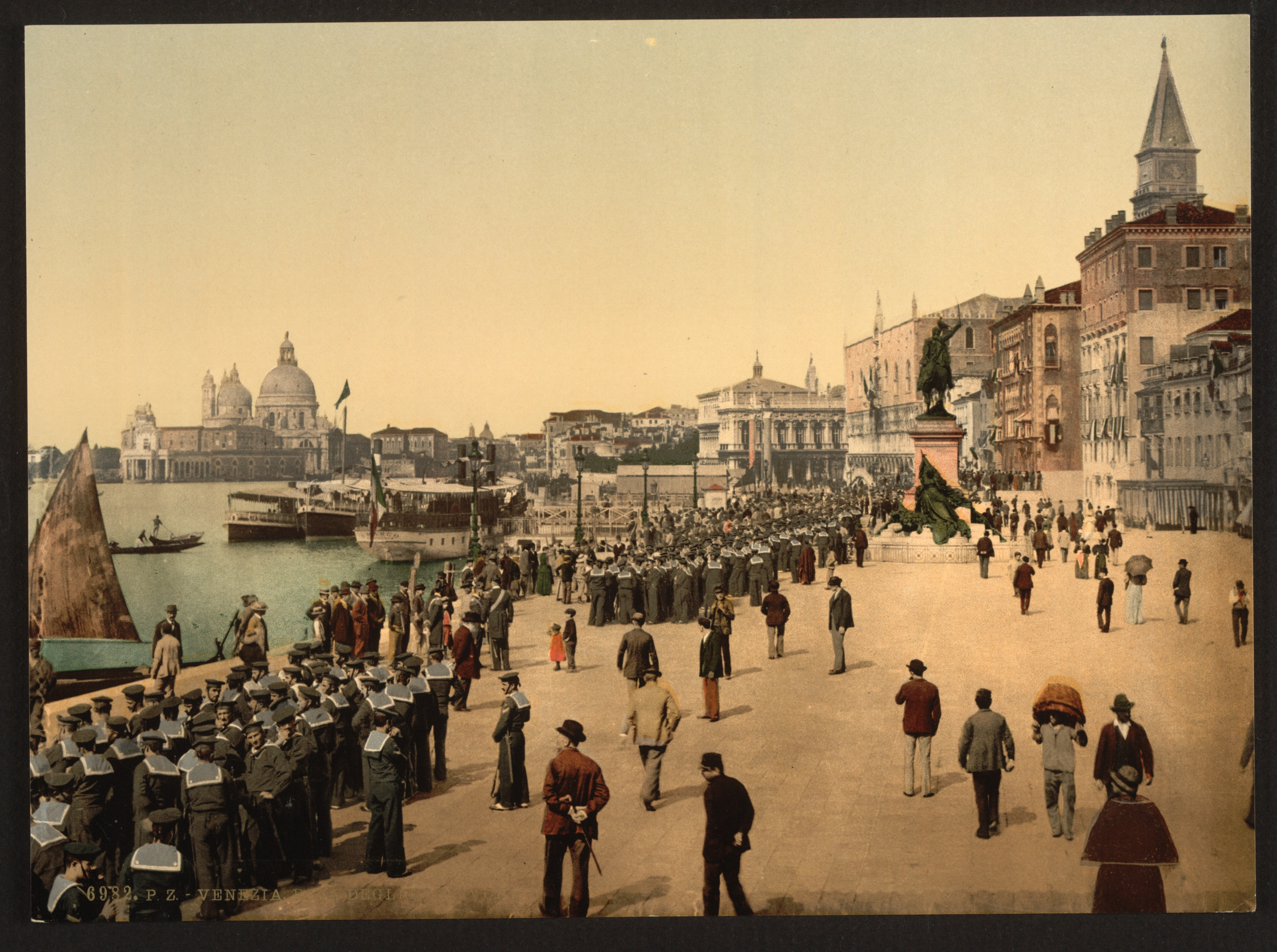 Print no. "6982".; Forms part of: Views of architecture and other sites in Italy in the Photochrom print collection.; Title from the Detroit Publishing Co., Catalogue J-foreign section, Detroit, Mich. : Detroit Publishing Company, 1905.; More information about the Photochrom Print Collection is available at